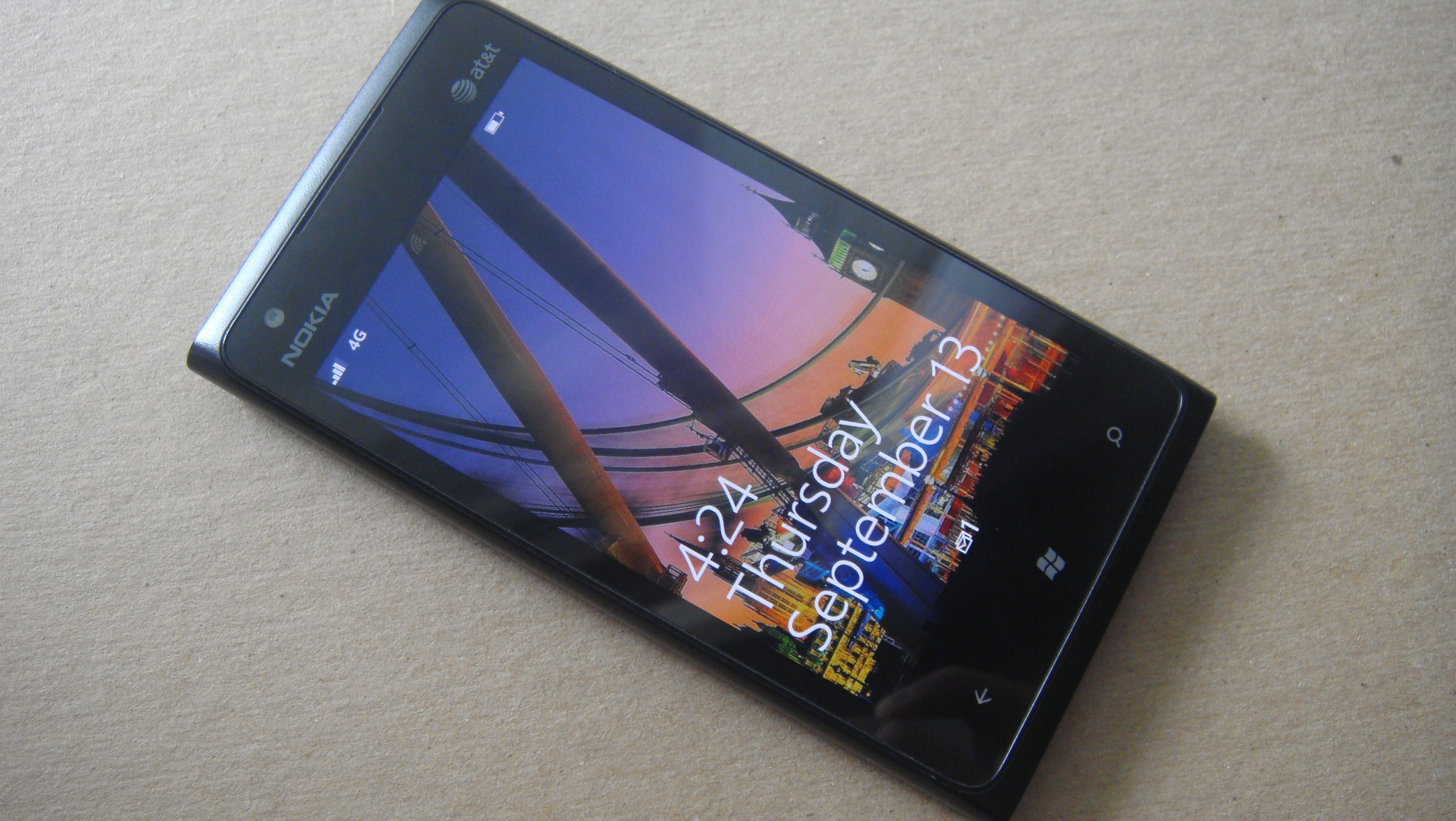 picture of Nokia Lumia 900 phone